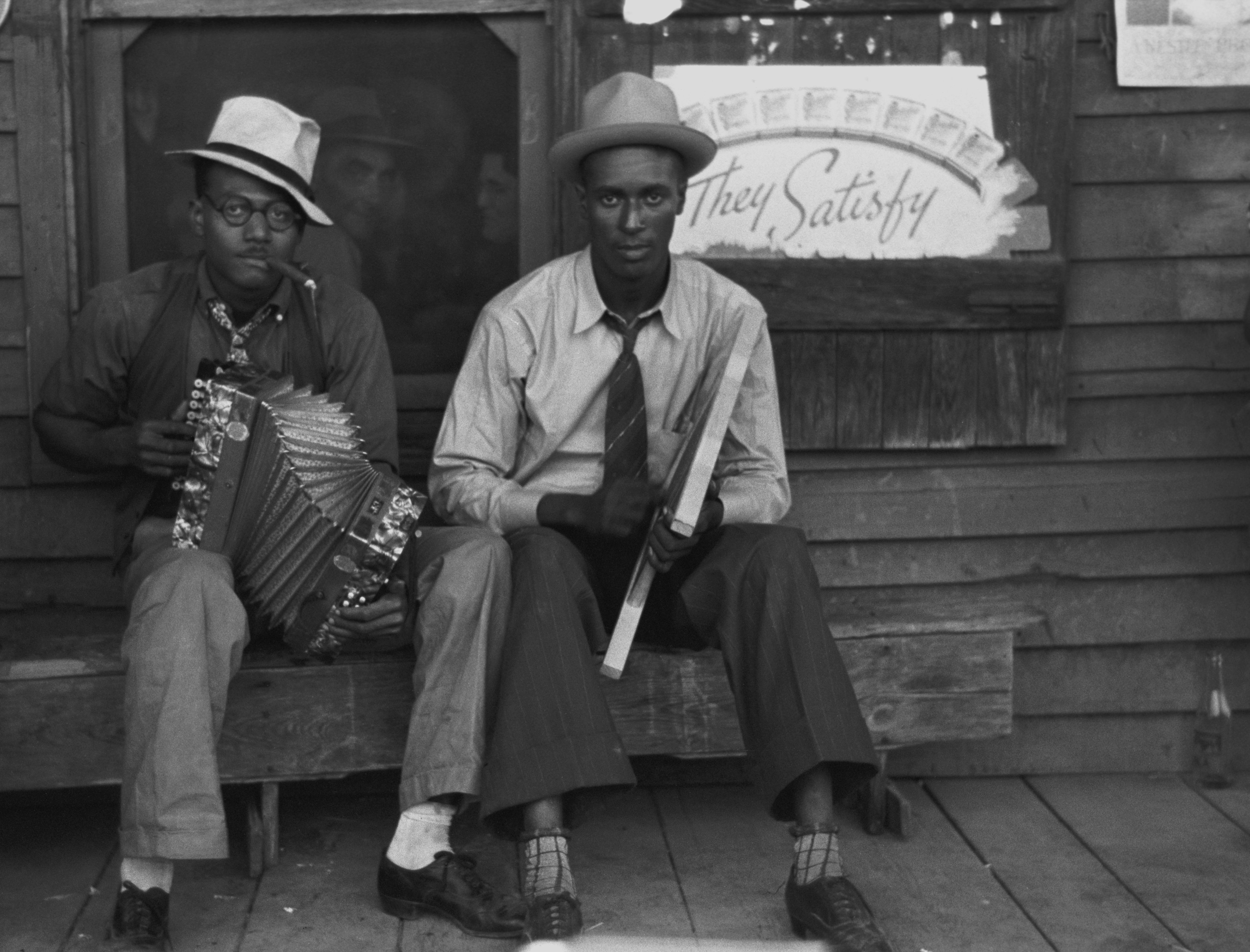 Negro musicians playing accordion and washboard in front of store, near New Iberia, Louisiana. Reproduction number: LC-DIG-fsa-8a24838 DLC